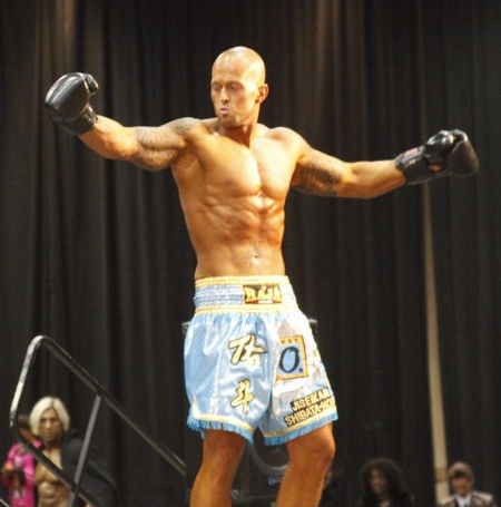 John Quinlan in Raja Boxing shorts